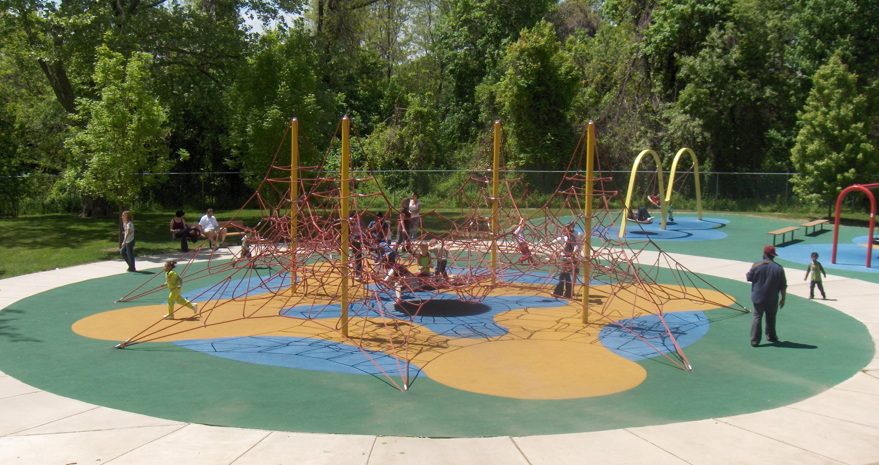 The Richard and Sarah Smith Playhouse (Ca. 1898) on Reservoir Drive, 0.4 mile west of 33rd Street and Oxford Street, Philadelphia, PA 19121.